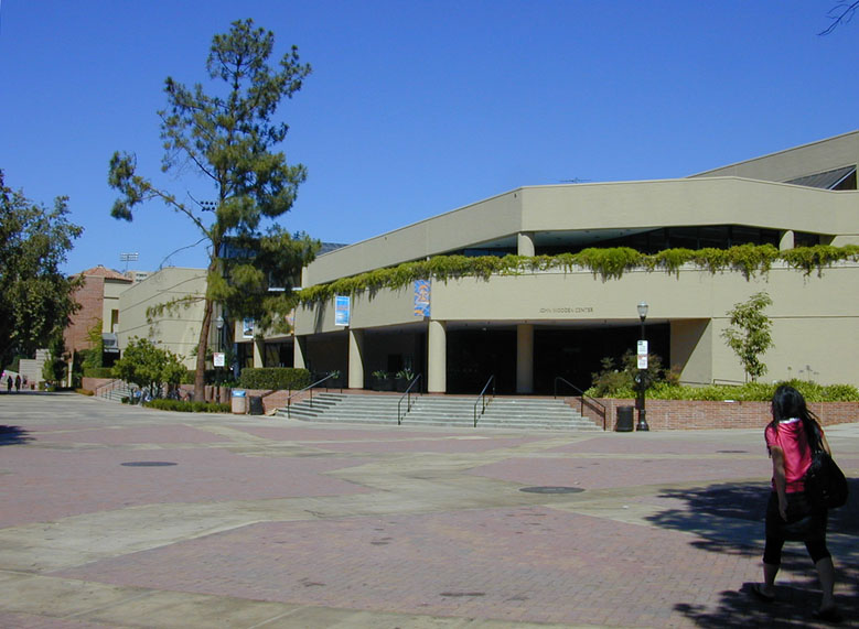 John Wooden Center, UCLA, Los Angeles California